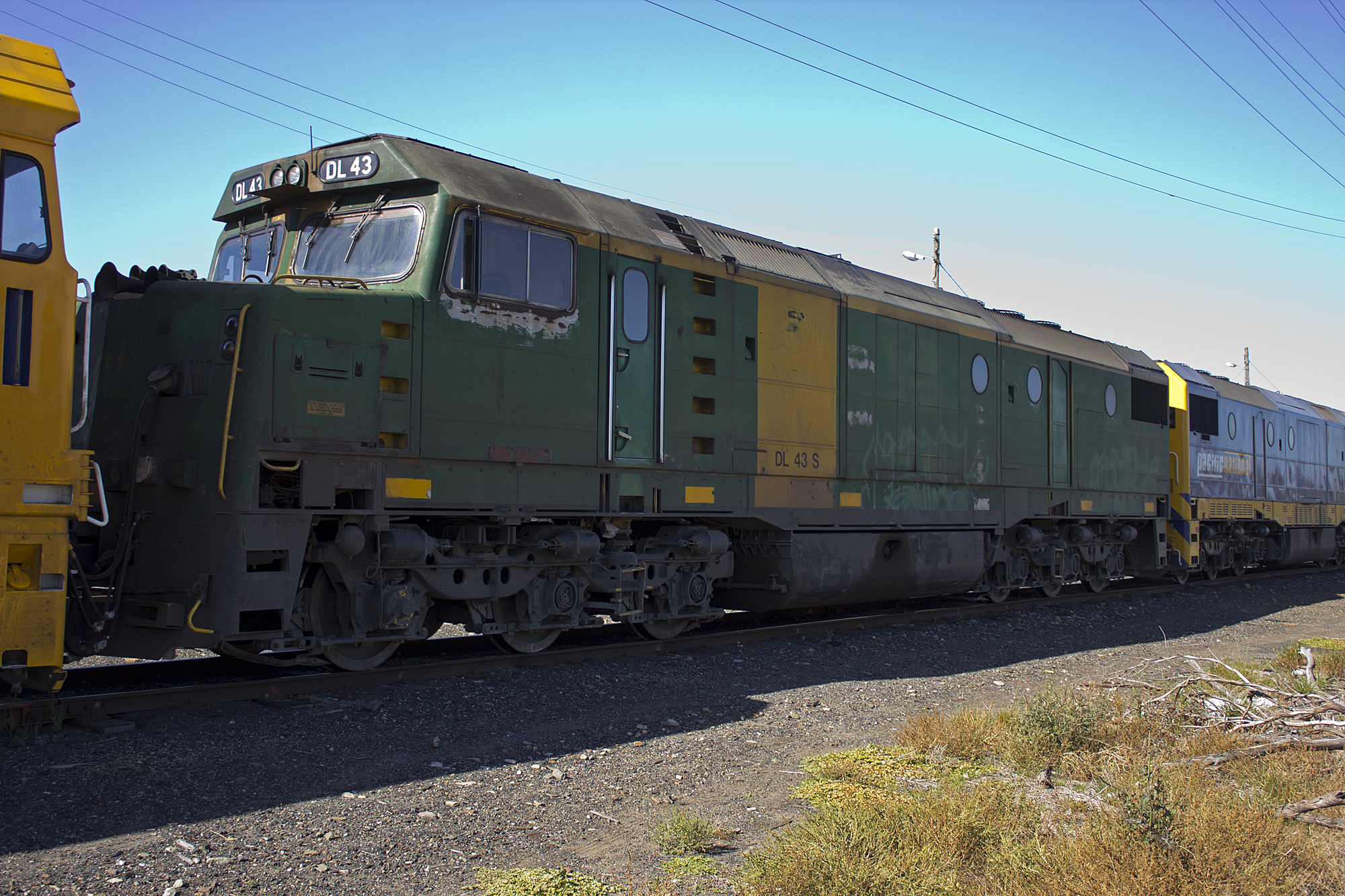 G 531, DL 43 and 50 freight train parked in the Junee Railway Station yard.